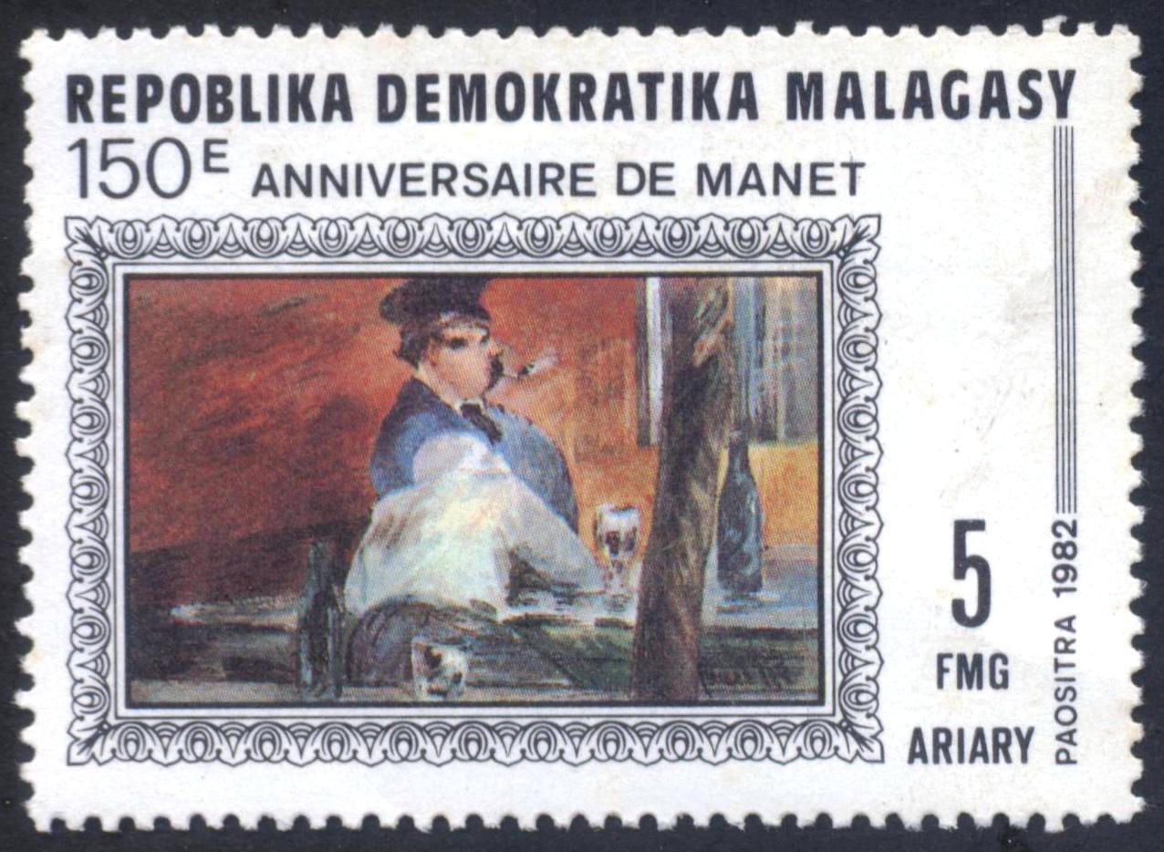 Reproduktion of a painting from Édouard Manet (1832–1883) Alternative names Edouard Manet; ManetDescriptionFrench painter and illustratorDate of birth/death 23 January 1832 30 April 1883Location of birth/death Paris ParisWork location ParisAuthority control : Q40599 VIAF: 97379936 ISNI: 0000 0001 2144 651X ULAN: 500010363 LCCN: n79043160 NLA: 35961447 WorldCat creator QS:P170,Q40599 on a stamp of the Malagasy Republic